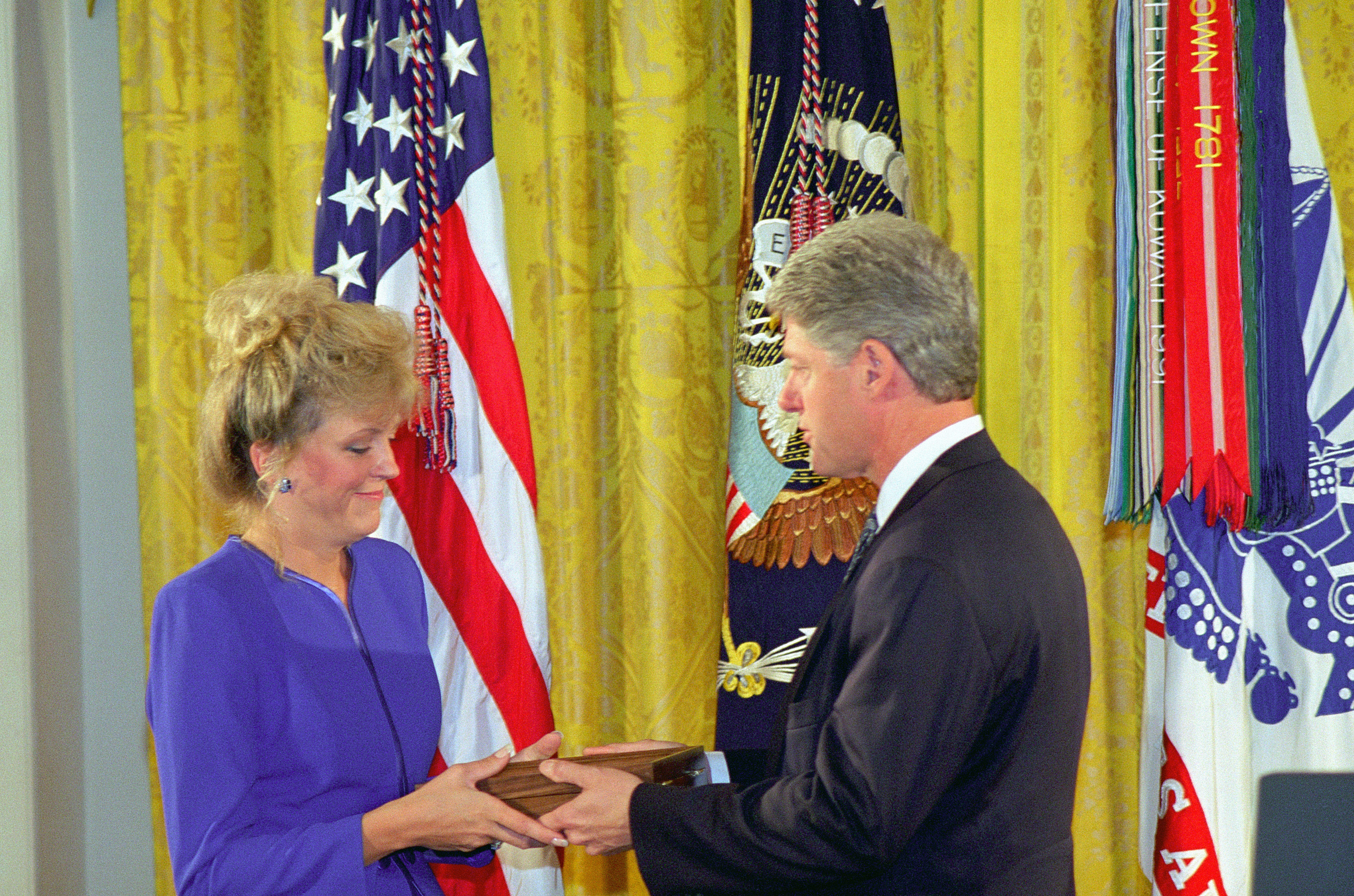 The President of the United States, William J. Clinton presented the nation's highest award for military valor The Medal of Honor (Posthumously) to Carmen, the widow of Master Sergeant Gary I. Gordon. He and his Sniper Team Member were killed on 03 October 1993, while serving as Team Leader, United States Army Special Operation Command with Task Force Ranger in Mogadishu, Somalia. They provided precision sniper fire from the lead helicopter during an assault on a building and at two helicopter crash sites, while subjected to intense automatic weapons fire and rocket propelled grenades.